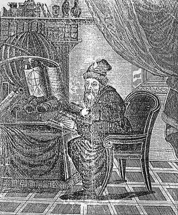 Old picture of Maimonides (Rambam), Jerusalem.